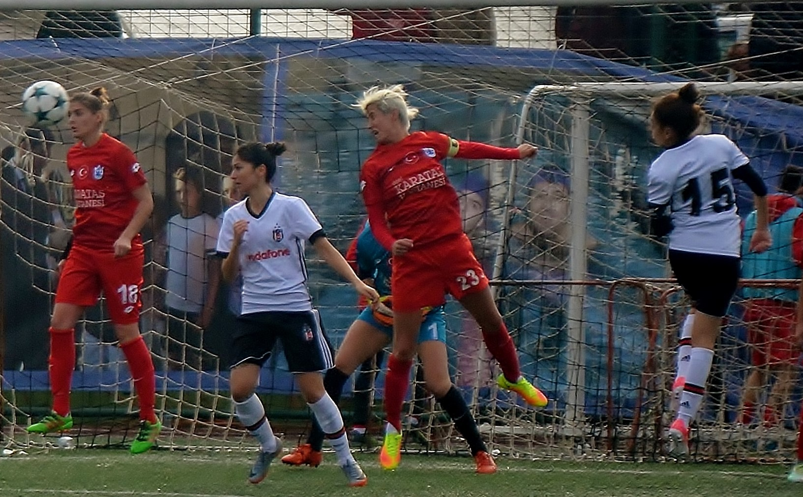 Esra Erol (#23) captaining Konak Belediyespor against Beşiktaş J.K. in the away match of the 2017-18 Turkish Women's First Football League.